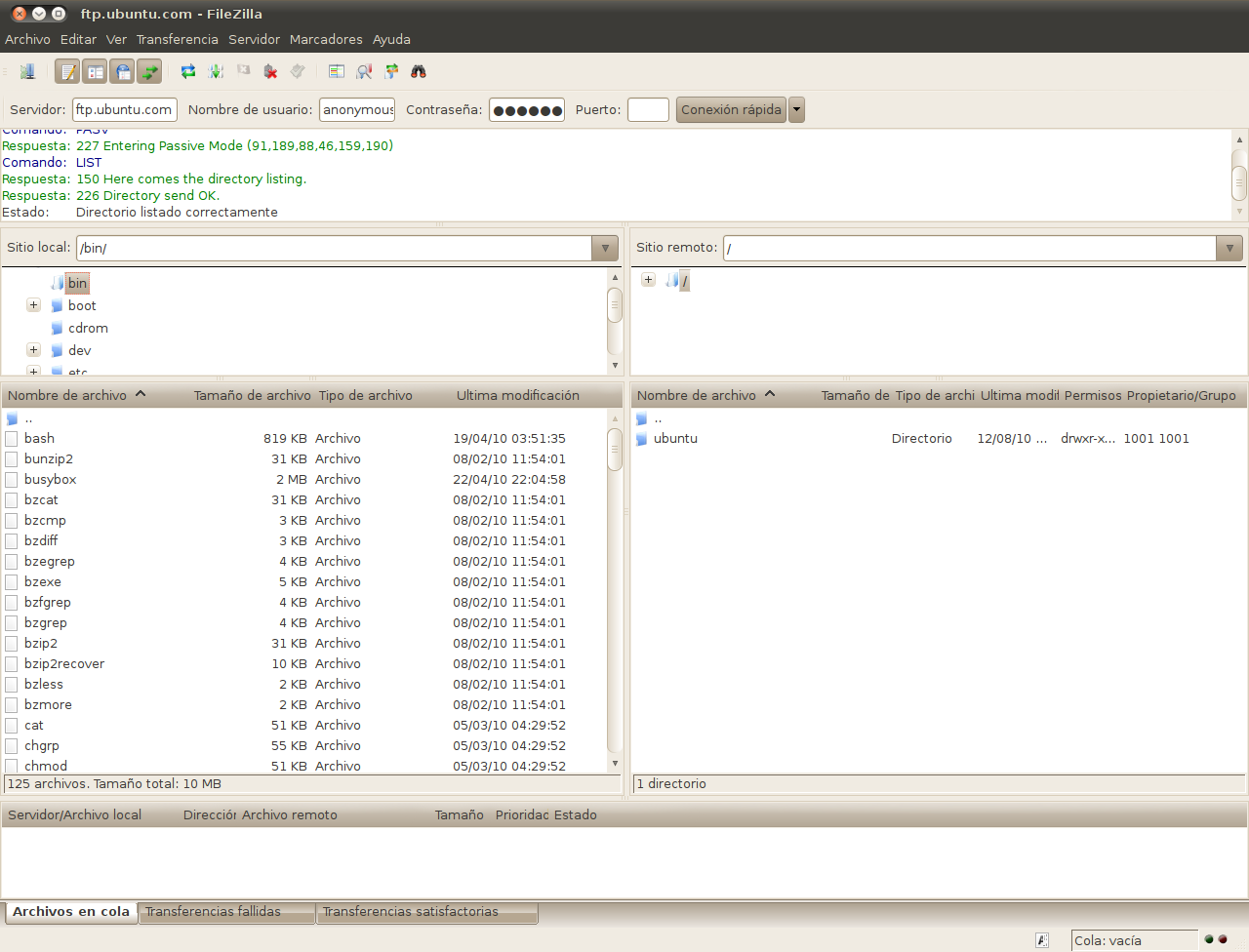 Screenshot of FileZilla 3.3.1 on Ubuntu 10.04